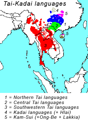 Geographical distribution of the Tai-Kadai phylum. Classification according to David B. Solnit.